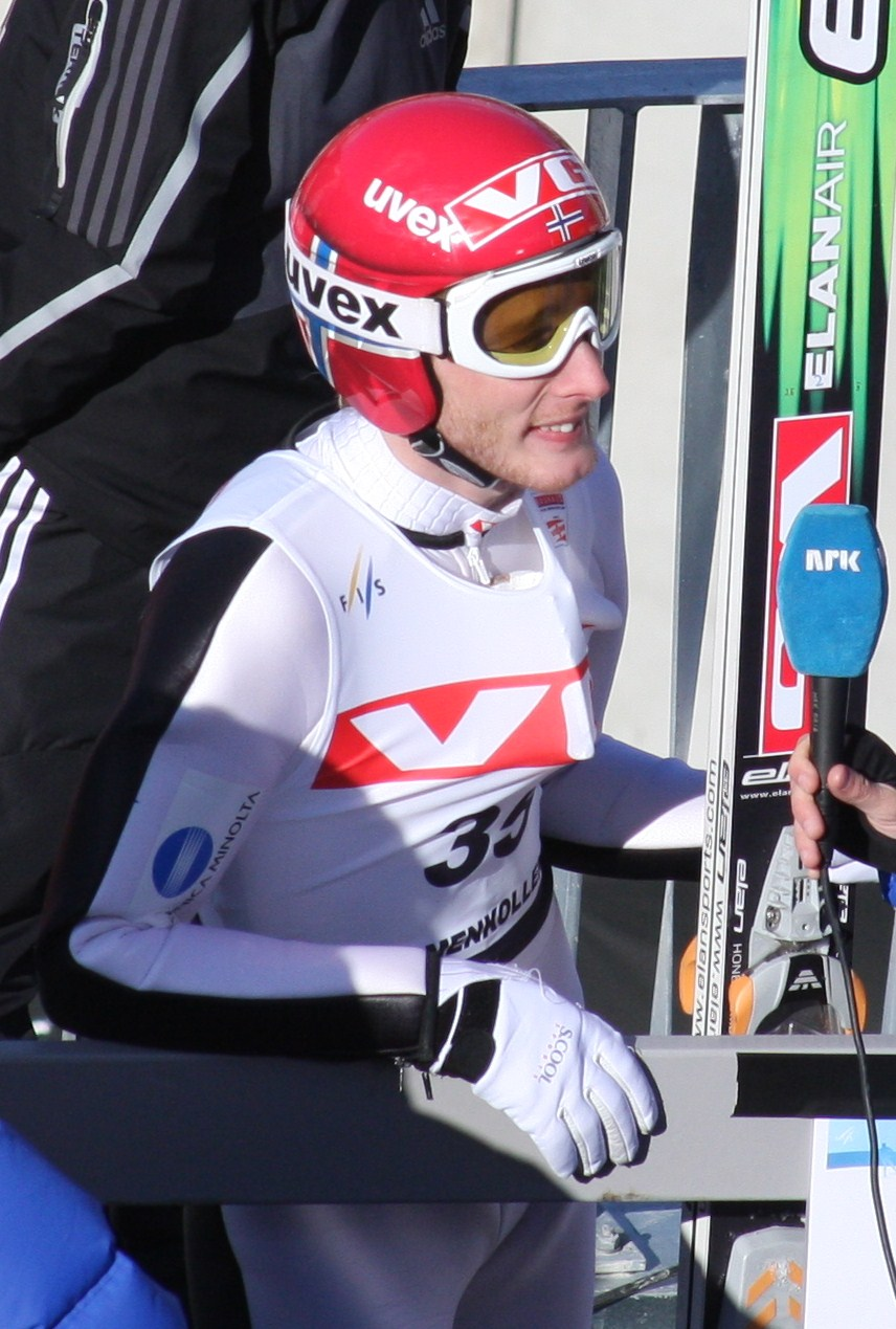 Johan Remen Evensen (NOR) in WC Oslo, Holmenkollen, 14 march 2010